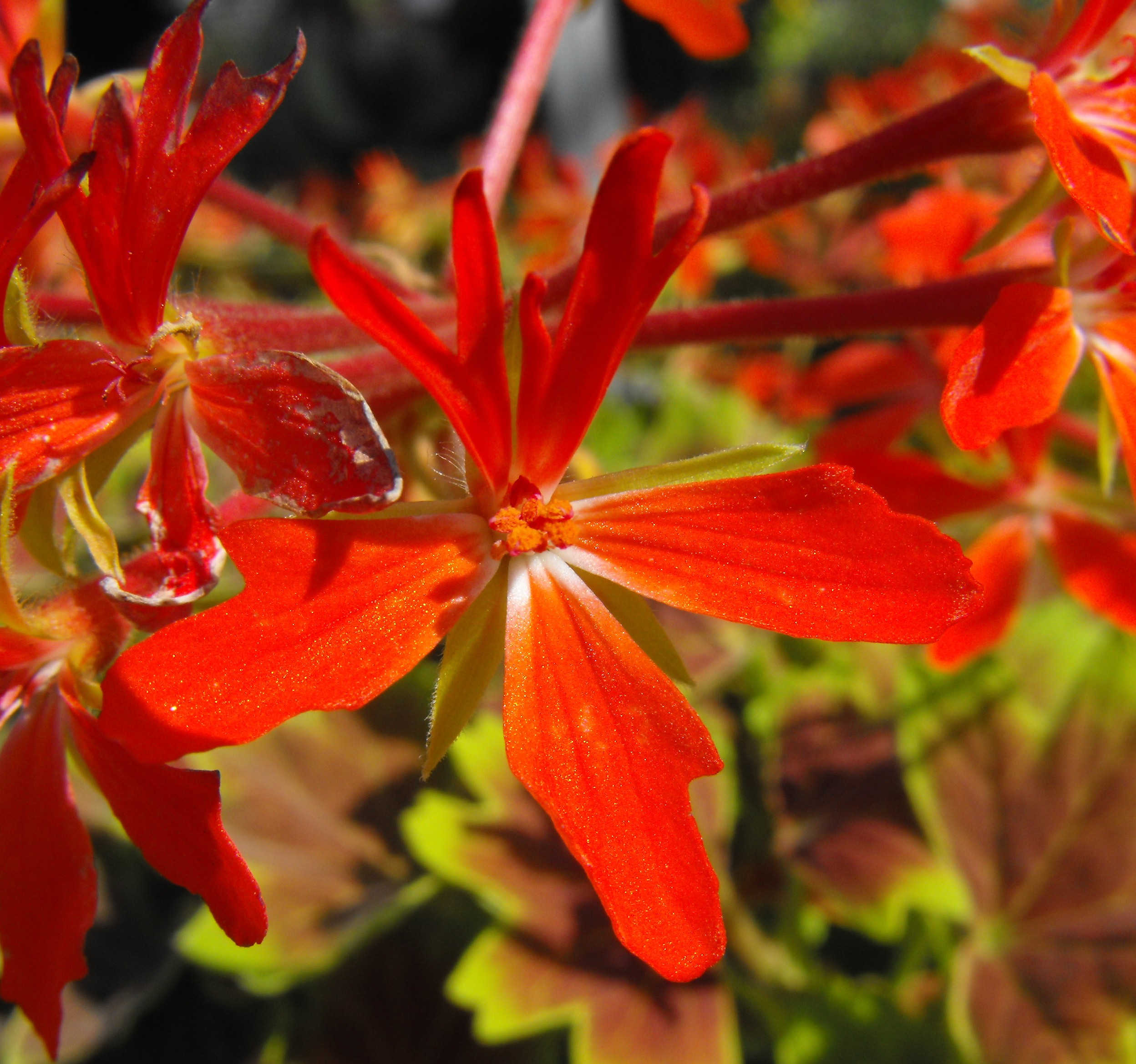 Pelargonium 'Vancouver Centennial' at the San Diego Home & Garden Show, Del Mar, California, USA. Identified by exhibitor's sign.